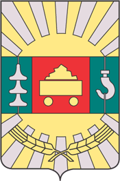 Artyom (Primorsky kray), coat of arms (1972)